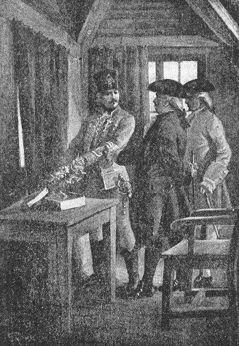 An illustration from Jules Verne's novel "The Secret of William Storitz" (written in 1898, firts published in 1910 after his death with changes made by his son Michel) drawn by George Roux.